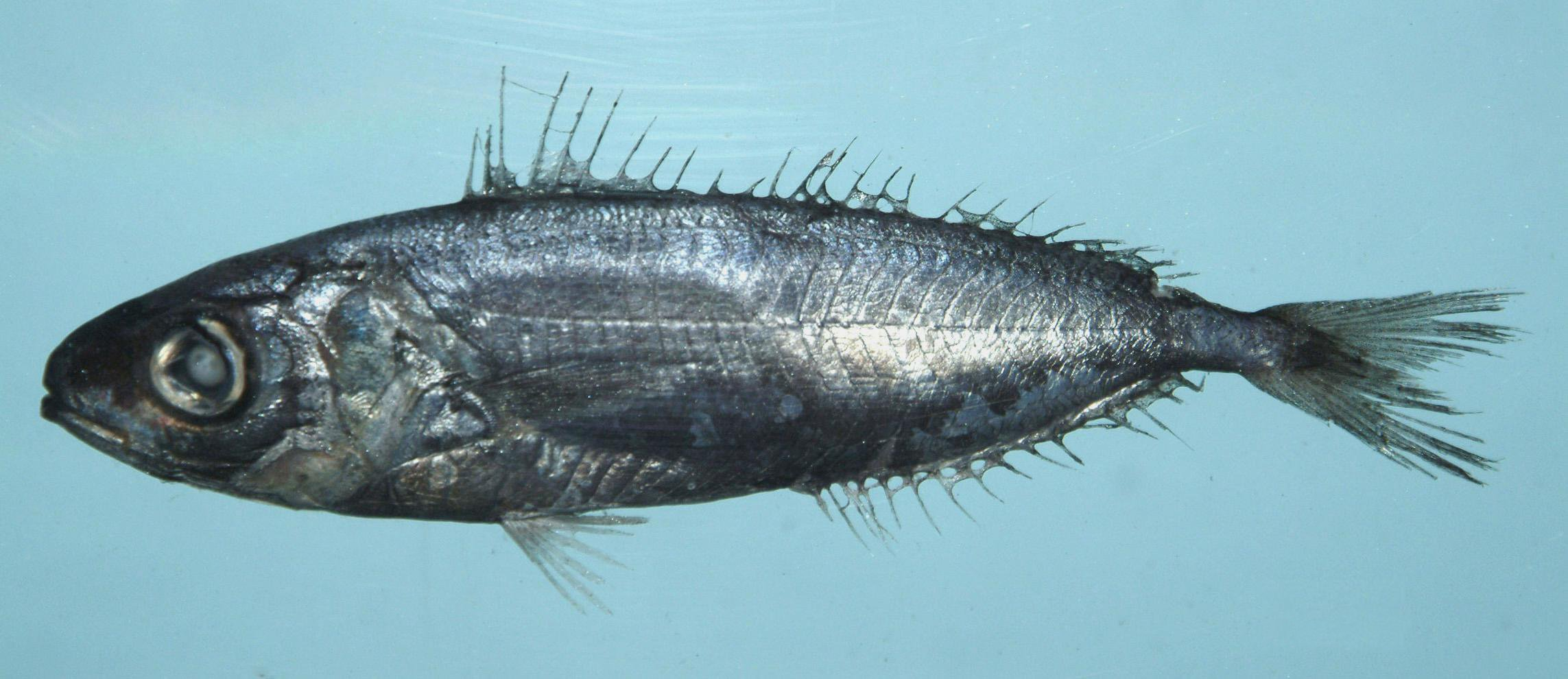 Brown driftfish ( Ariomma melanum). Gulf of Mexico.